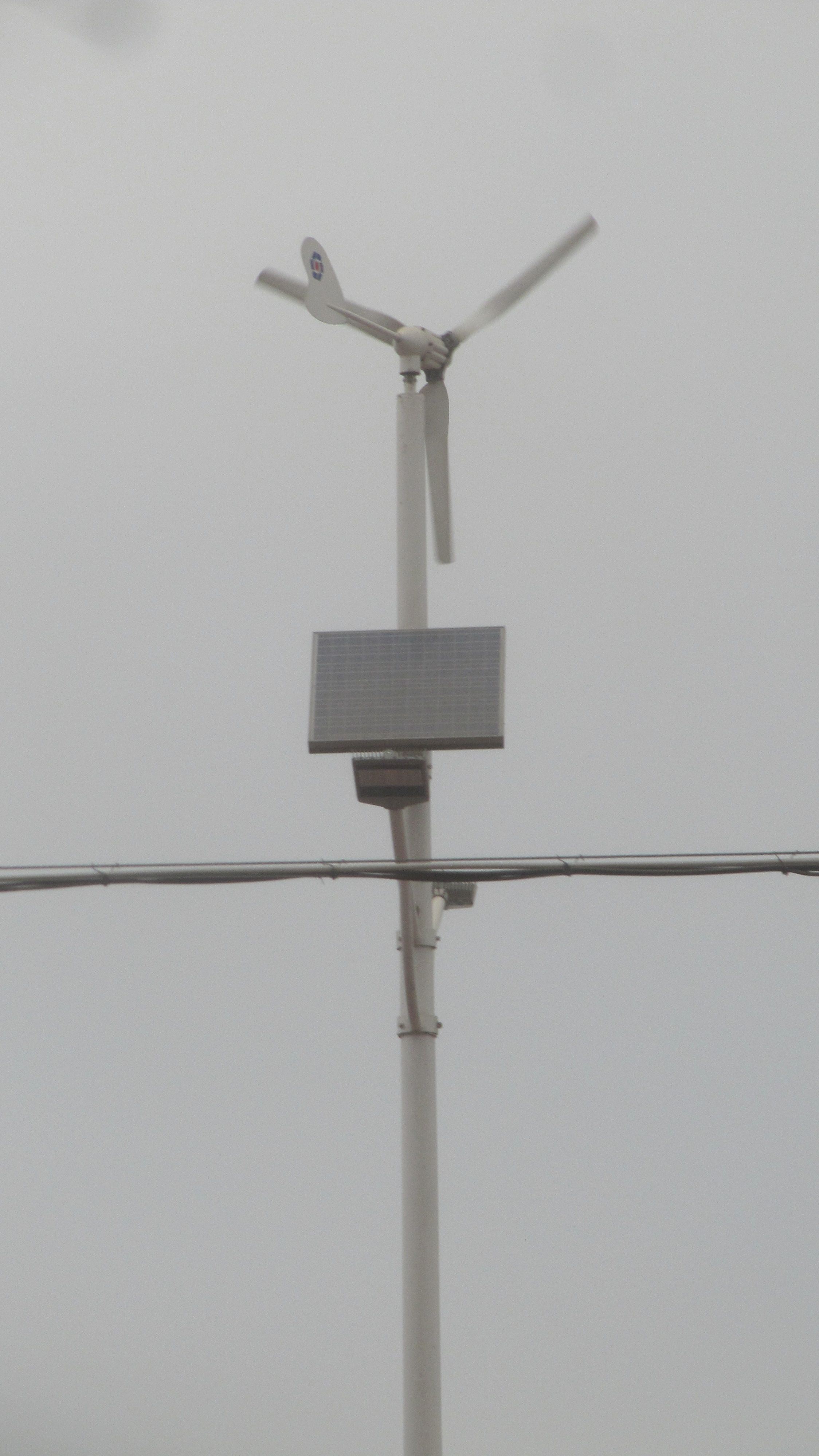 Solar electric panel and windturbine on lights in 2011, in Weihai, Shandong province, China Unknown